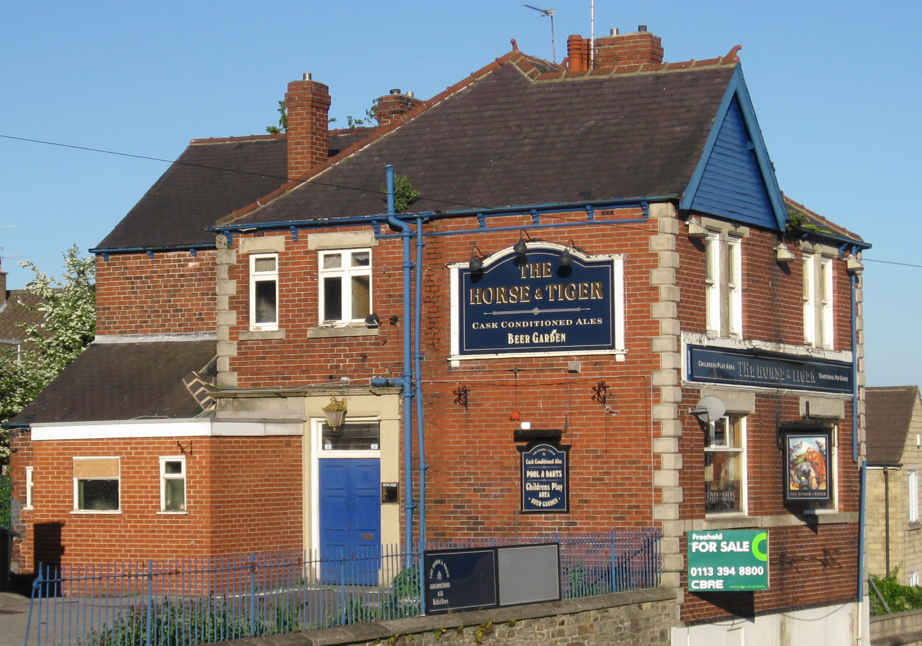 Horse and Tiger, Brook Hill, Thorpe Hesley,Rotherham. S61 2QA In the Sheffield postcode, but part of Rotherham. Public house